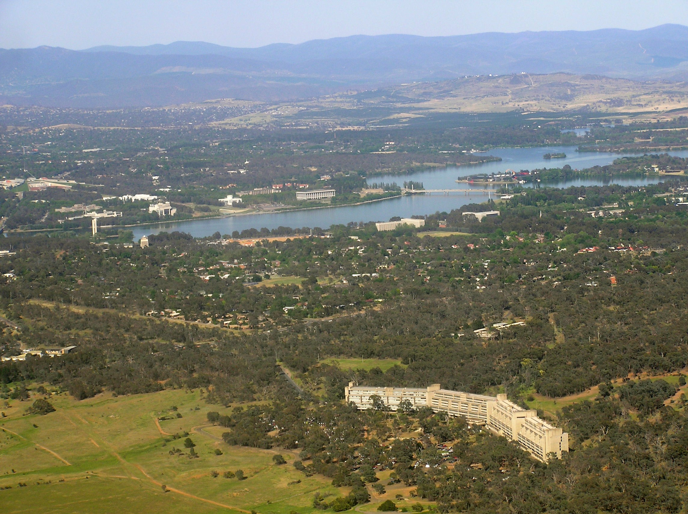 Campbell Park office complex in Canberra, with Campbell the suburb behind. Also visible is Lake Burley Griffin Mount Stromlo National Library, high Court, Carillion, and Questacon